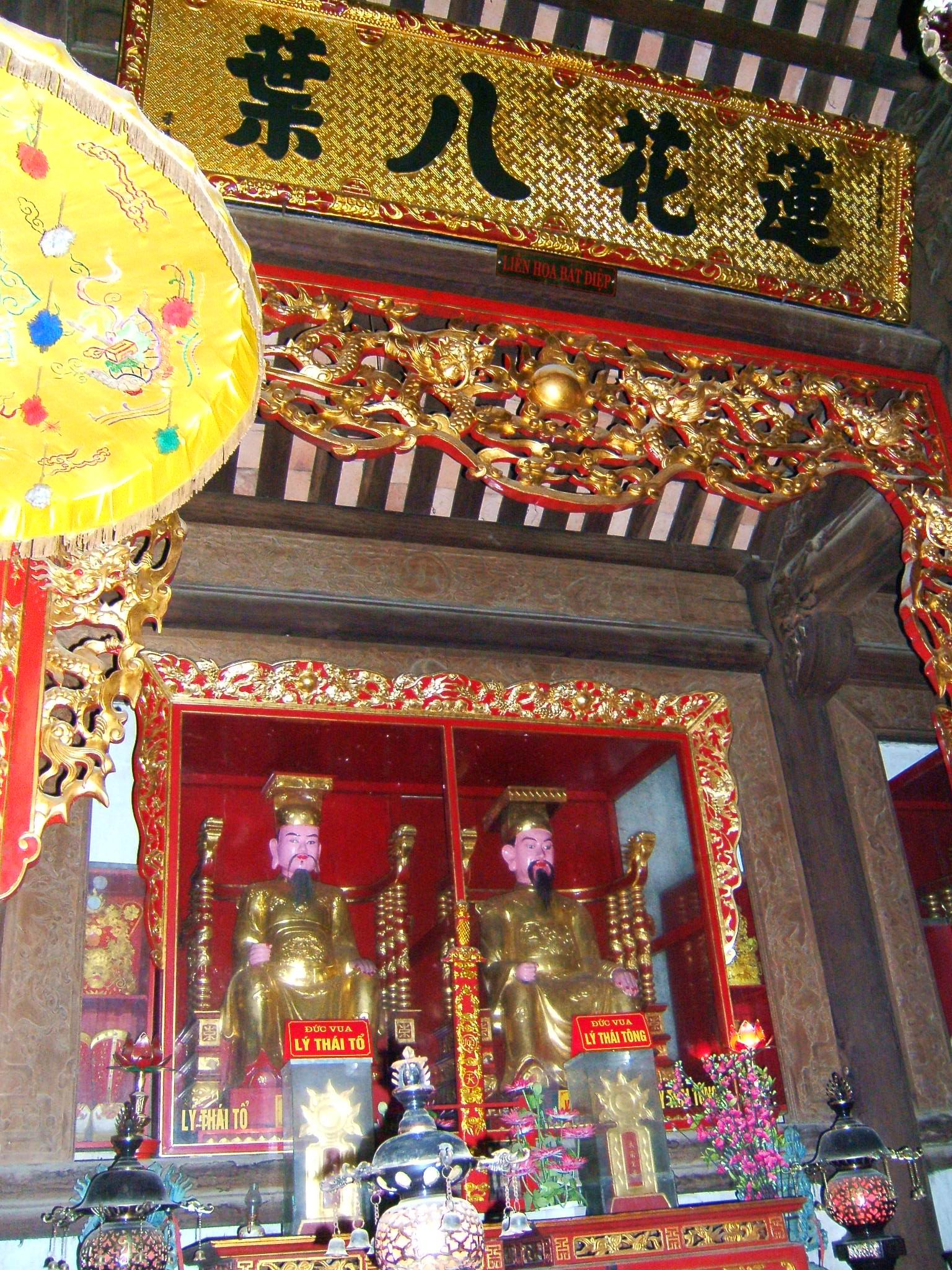 Statues of Lý Thái Tổ and Lý Thái Tông (two first emperors of Lý Dynasty) in the main hall of Lý Bát Đế Shrine.